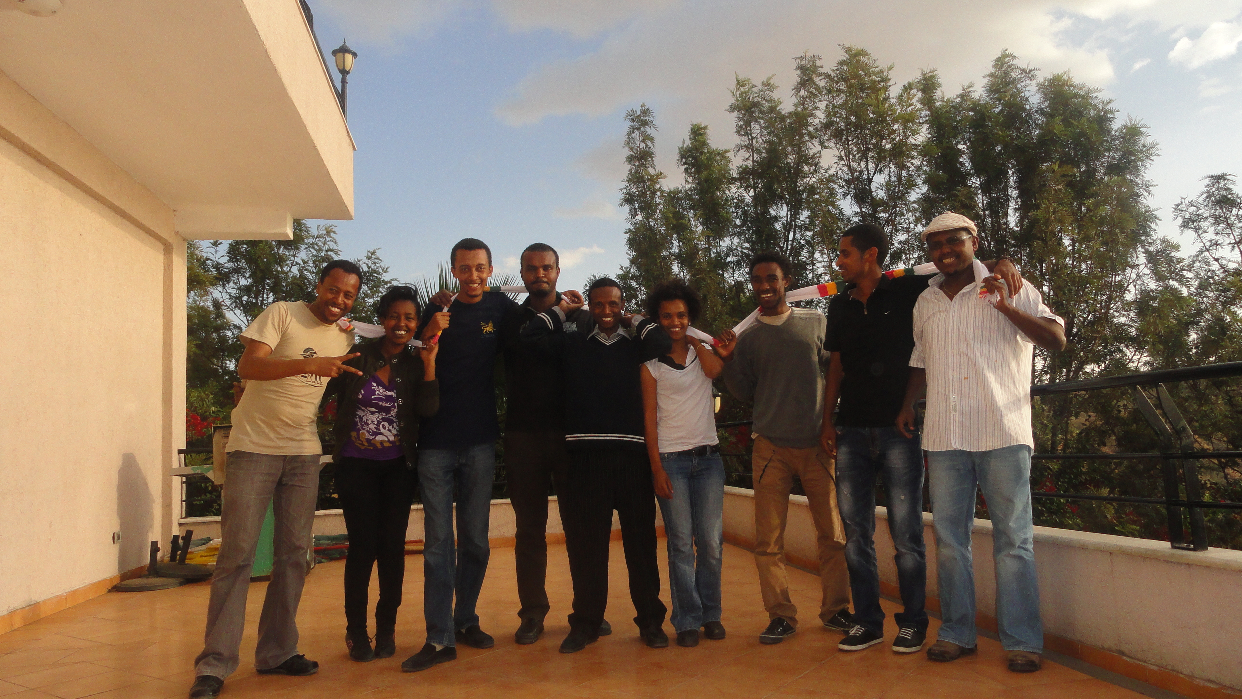 The founding members of Zone9 blogging collective. This photo was taken right after they have participated digital security training in Ethiopia